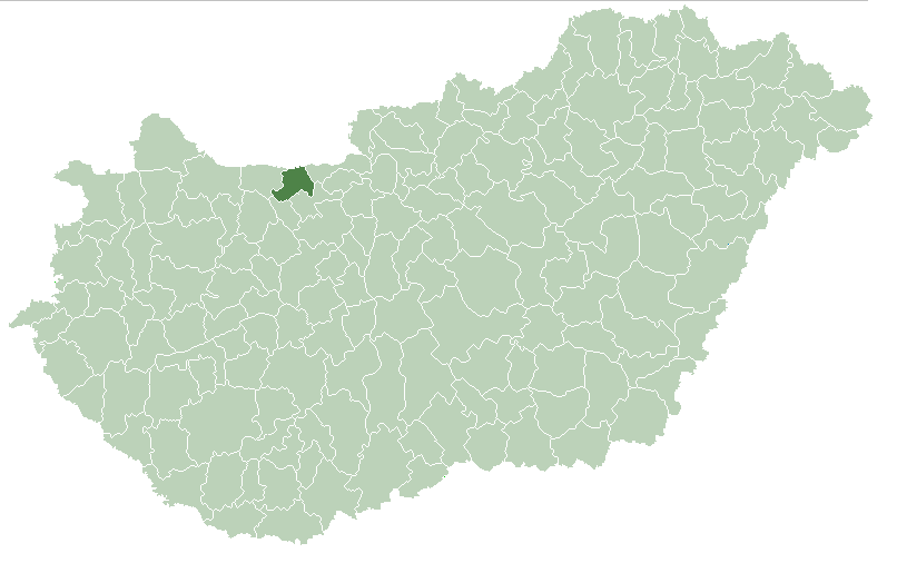 Subregion Tata in Hungary.